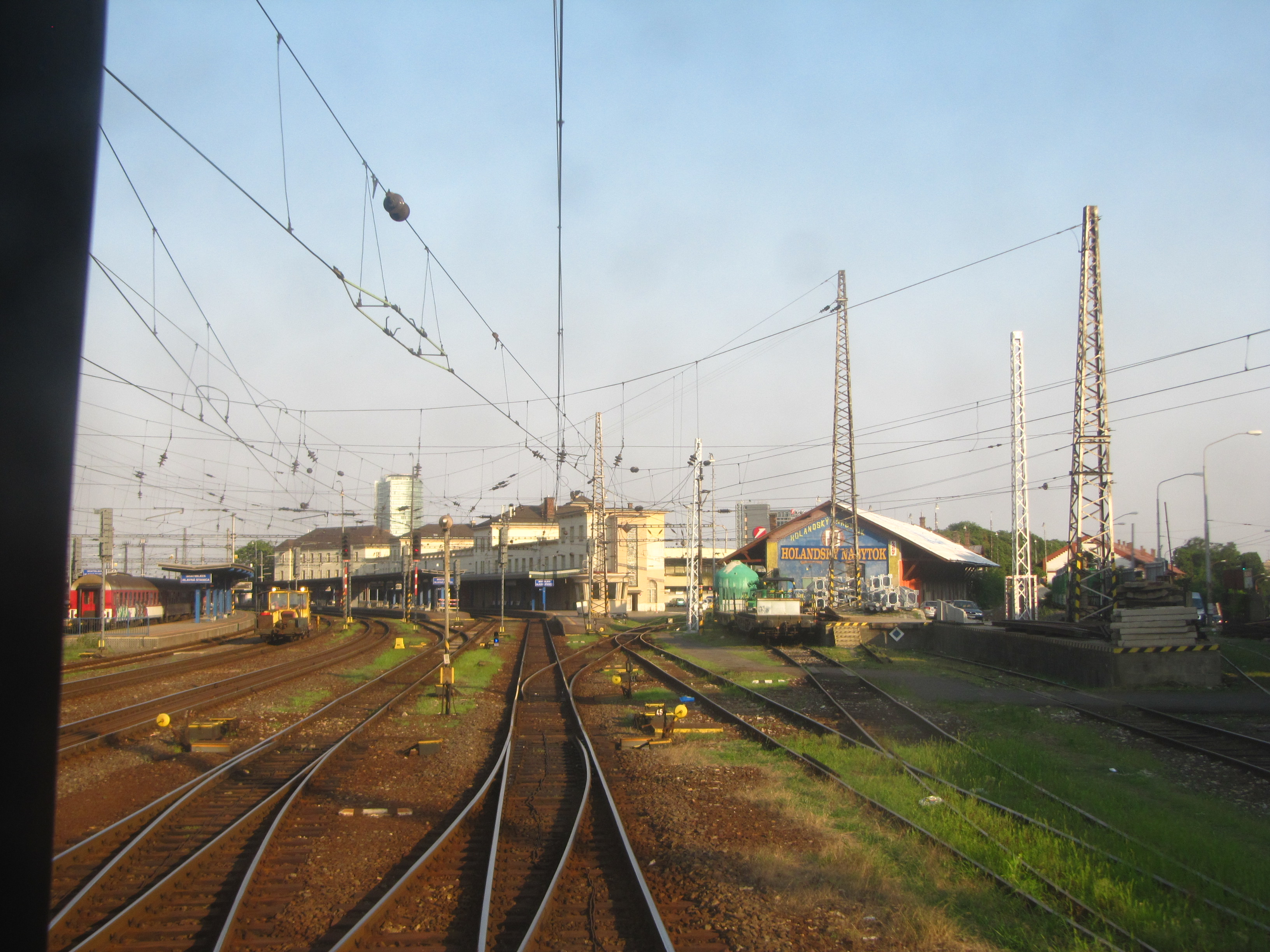 Bratislava hlavná stanica (main station) in May 2012. The overhead line system is being reconstructed since May 2012.